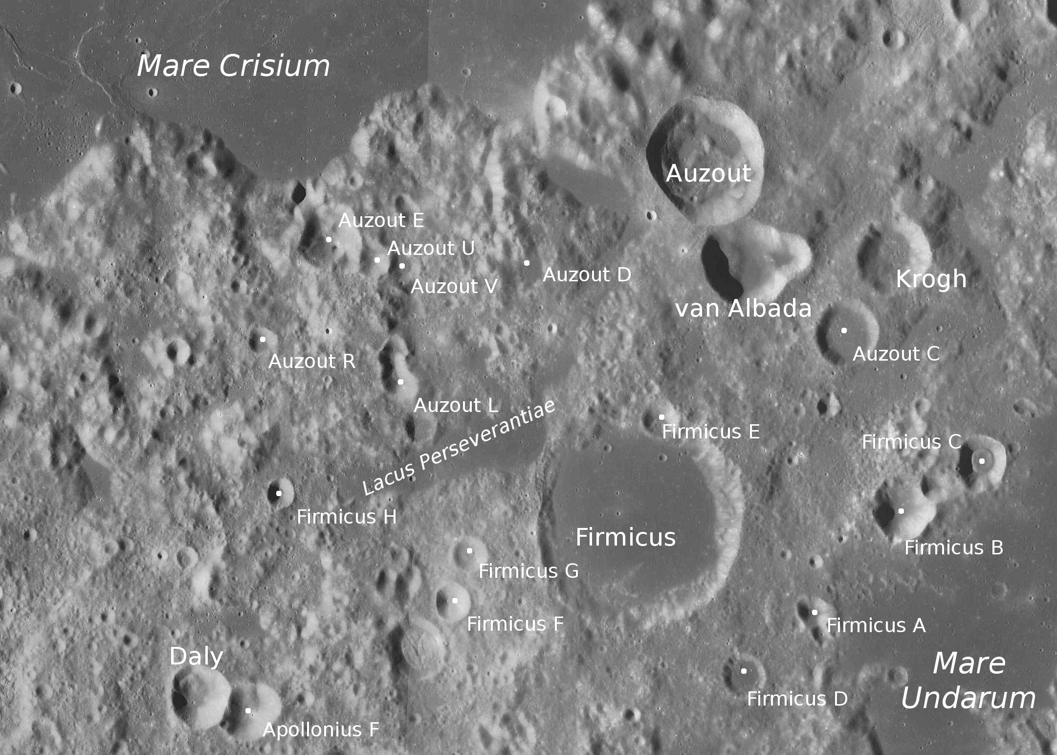 Crater Firmicus and surroundings (detail of LRO - WAC global moon mosaic; Mercator projection)